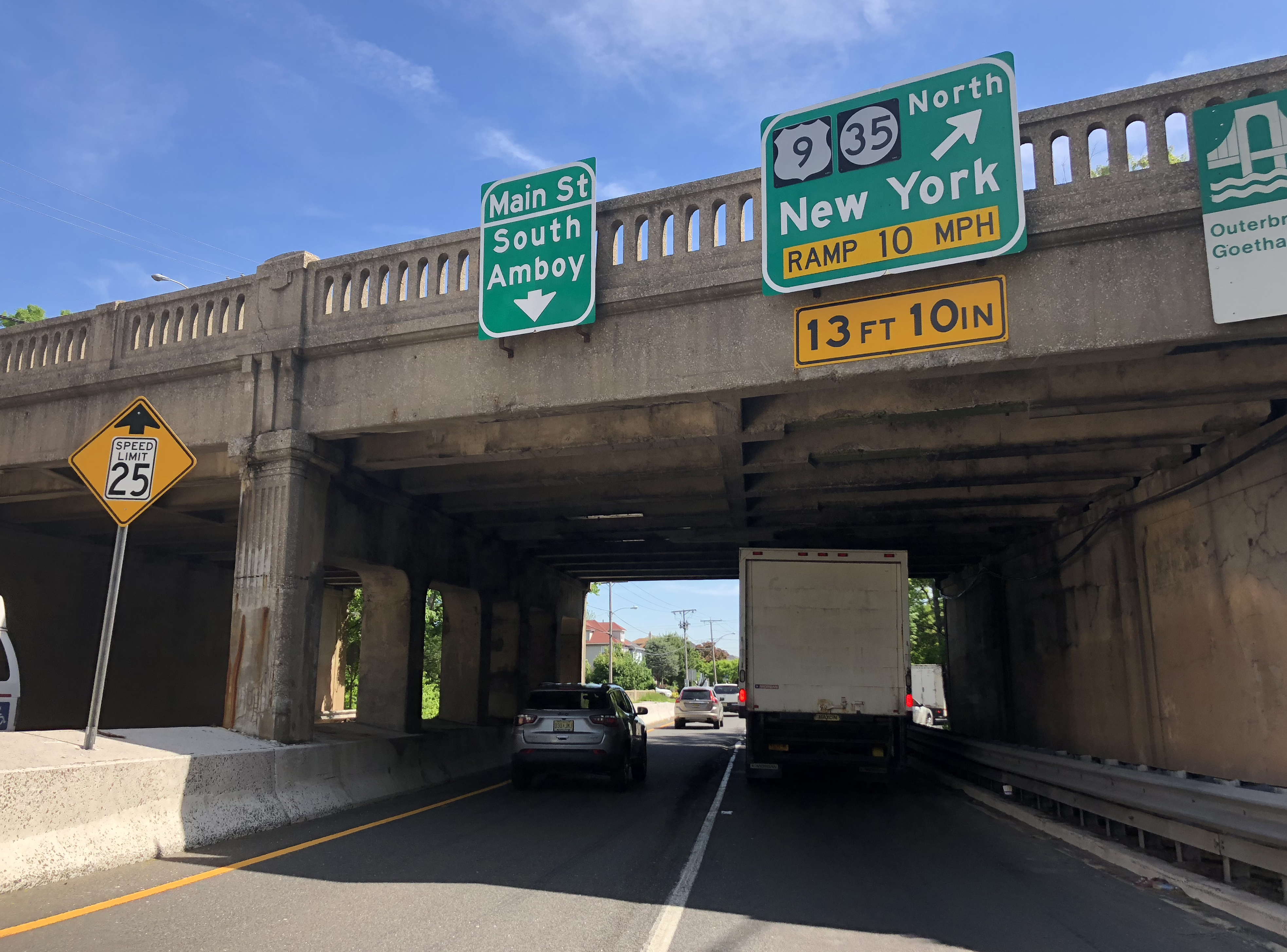 View north along U.S. Route 9 at the junction with New Jersey State Route 35 and Main Street in South Amboy, Middlesex County, New Jersey